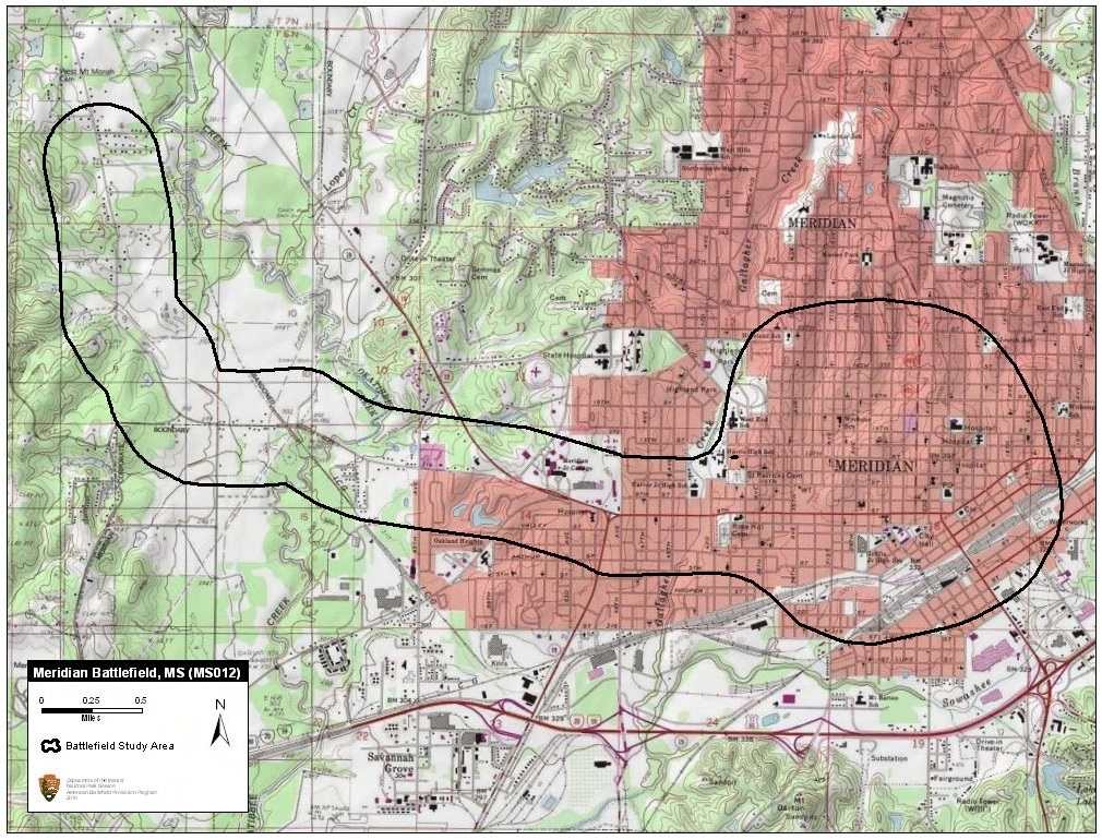 Map of battlefield study area. The Study Area was reduced around Meridian to include only areas within the city’s 1864 boundaries and locations associated with the Federal encampment north of the city. The Federal approach route from the northwest was added to the Study Area, while a route on the east side of the Study Area was removed (it was not associated with the battle dates of February 13-15, 1864). Although Sherman expected to engage Confederate forces during his approach to the city and within Meridian itself, no real fighting occurred. Confederate troops departed from Meridian before Sherman’s troops arrived. Federal forces occupied the city without substantial engagement with Confederate troops. Because no fighting occurred, the Core Area established by the CWSAC in 1993 was removed.